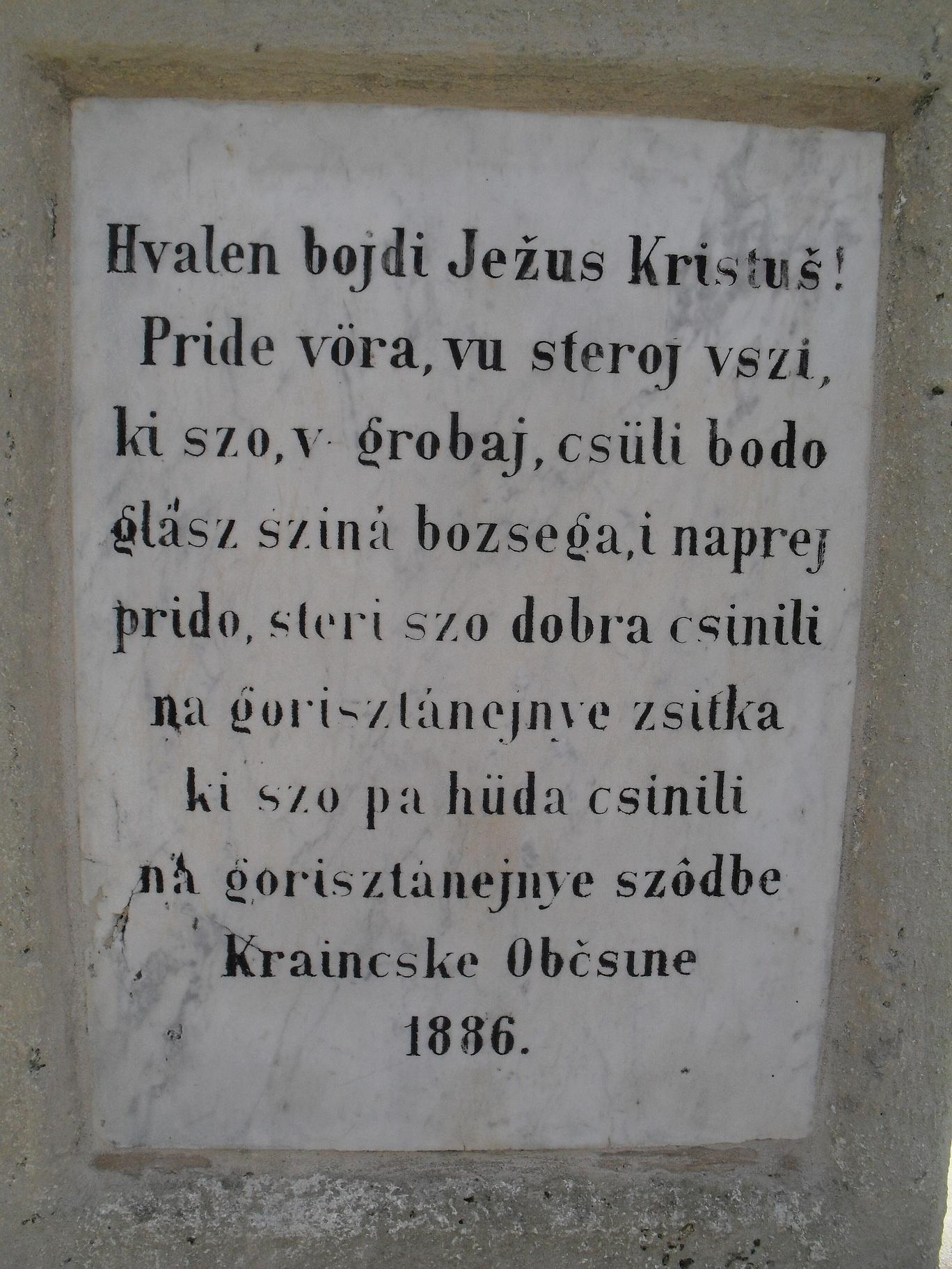 The prekmurian (prekmurščina) inscription about the Ressurection in the Cross (1) of the cemetery in Krajna, Prekmurje (1886)